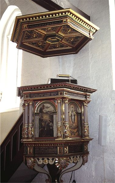 Thisted Kirke (church)